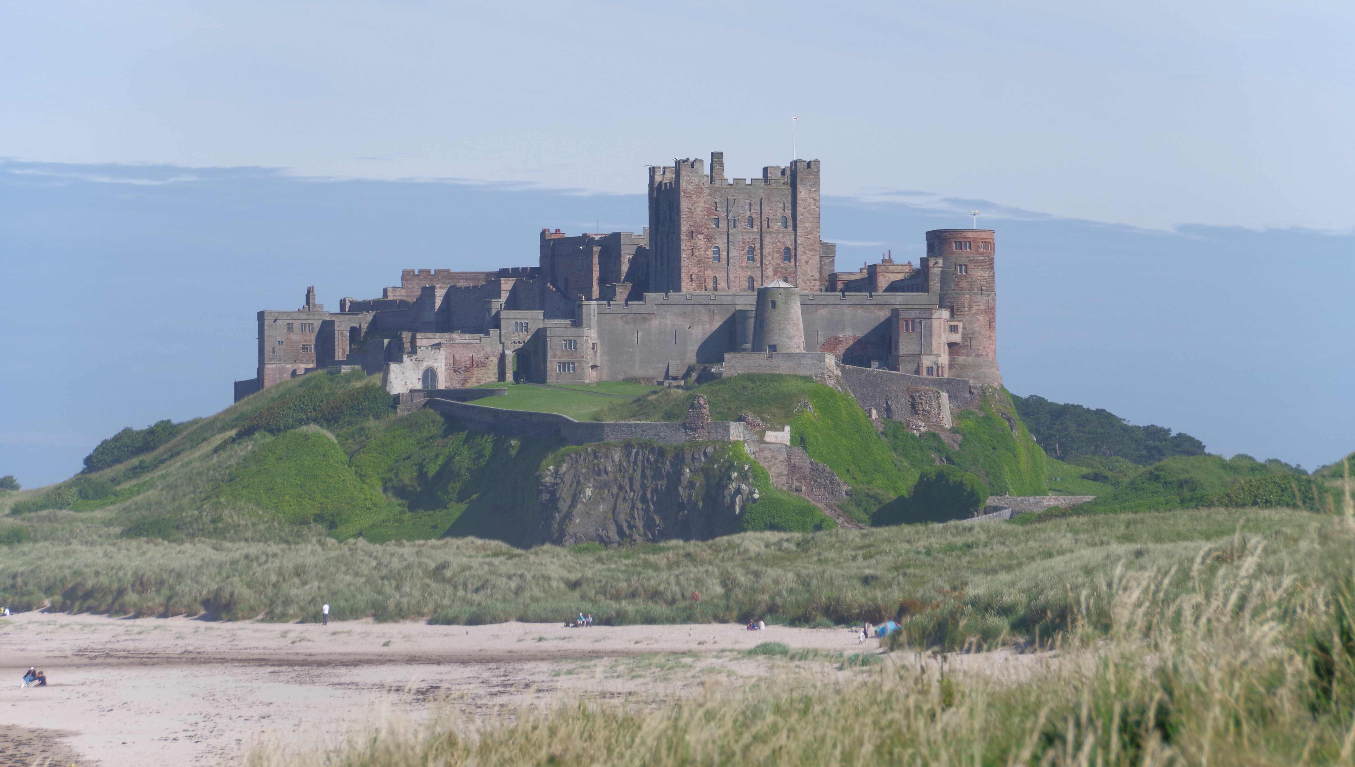 Bamburgh Castle, seen from the beach to the north.